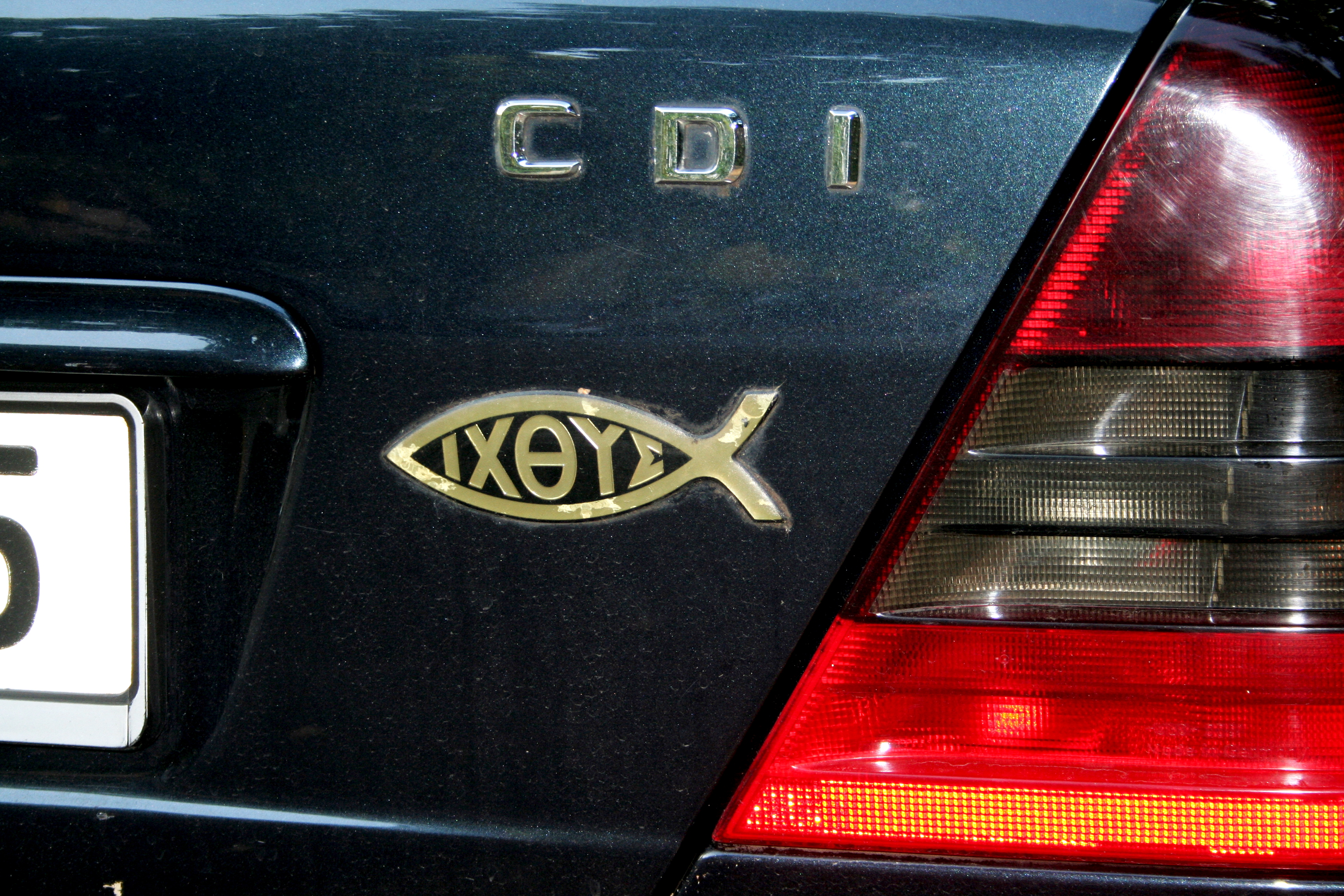 Ichthys-sign on an Mercedes car